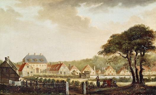 Brede Værk north of Copenhagen, Denmark